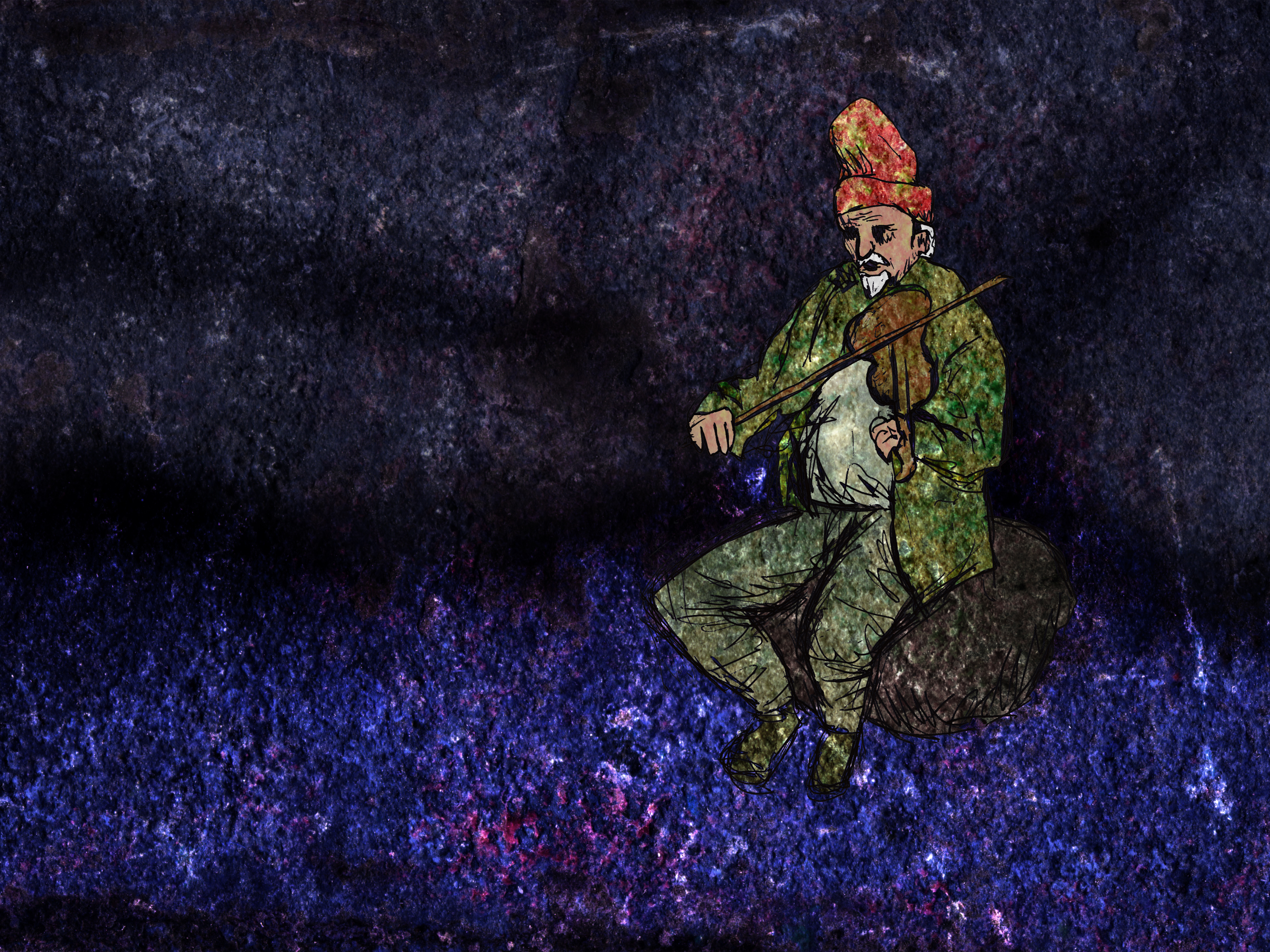 Strömgubben (i.e. "The Old Stream Man"), Strömkarlen (i.e. "The Stream Man"), or Fossegrimmen from Swedish folklore.